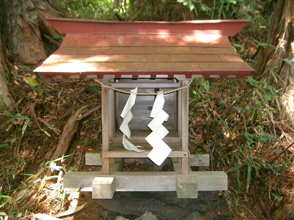 Small Shinto shrine on Mount Fuji woods. Author: Sean-Jin. Commons uploader: Nyo. Originally uploaded here on en.wiki.